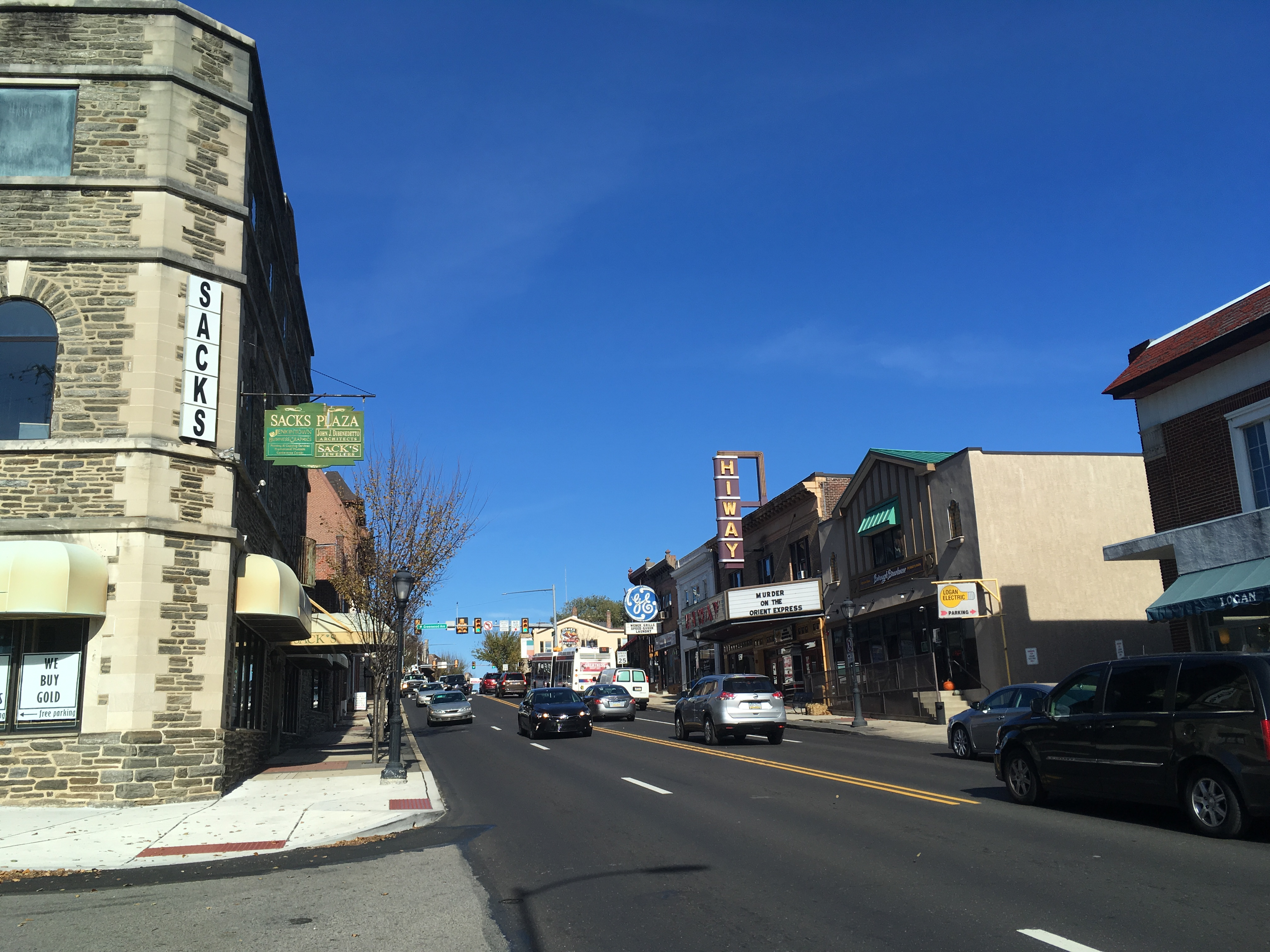 Northbound Pennsylvania Route 611 (Old York Road) approaching the intersection with Greenwood Avenue in Jenkintown, Pennsylvania.